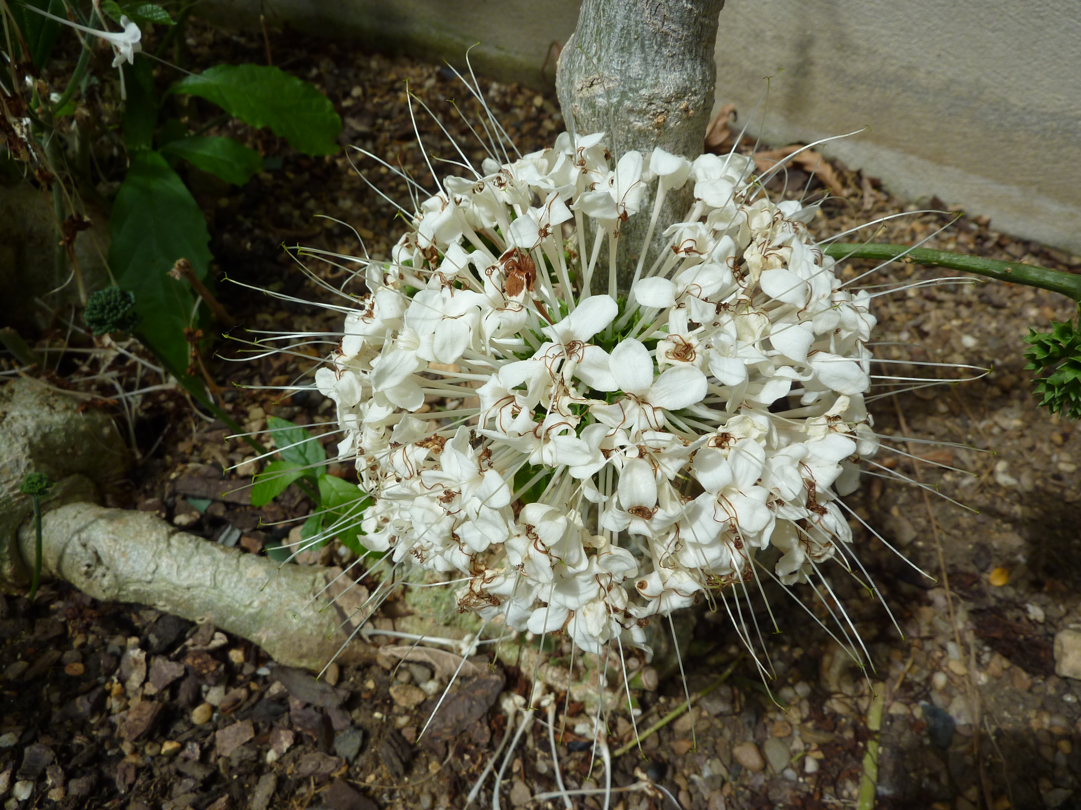 Taken in the Cambridge University Botanic Garden